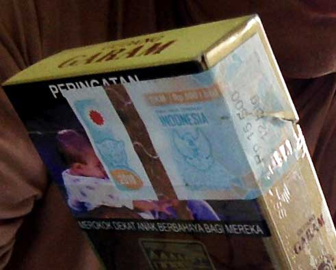 Tax Excise on Cigarette Package in Indonesia